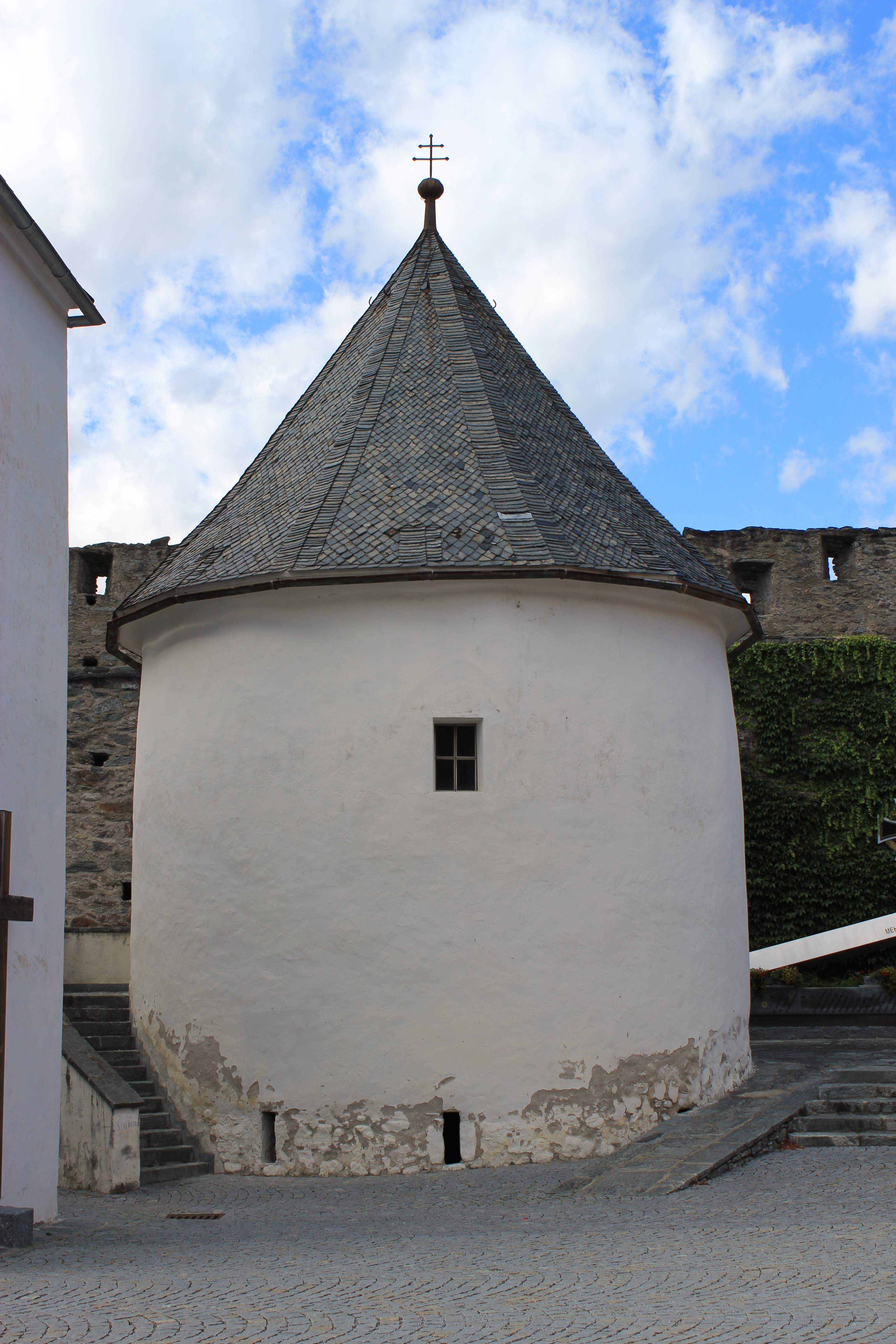 Charnel house in Gmünd